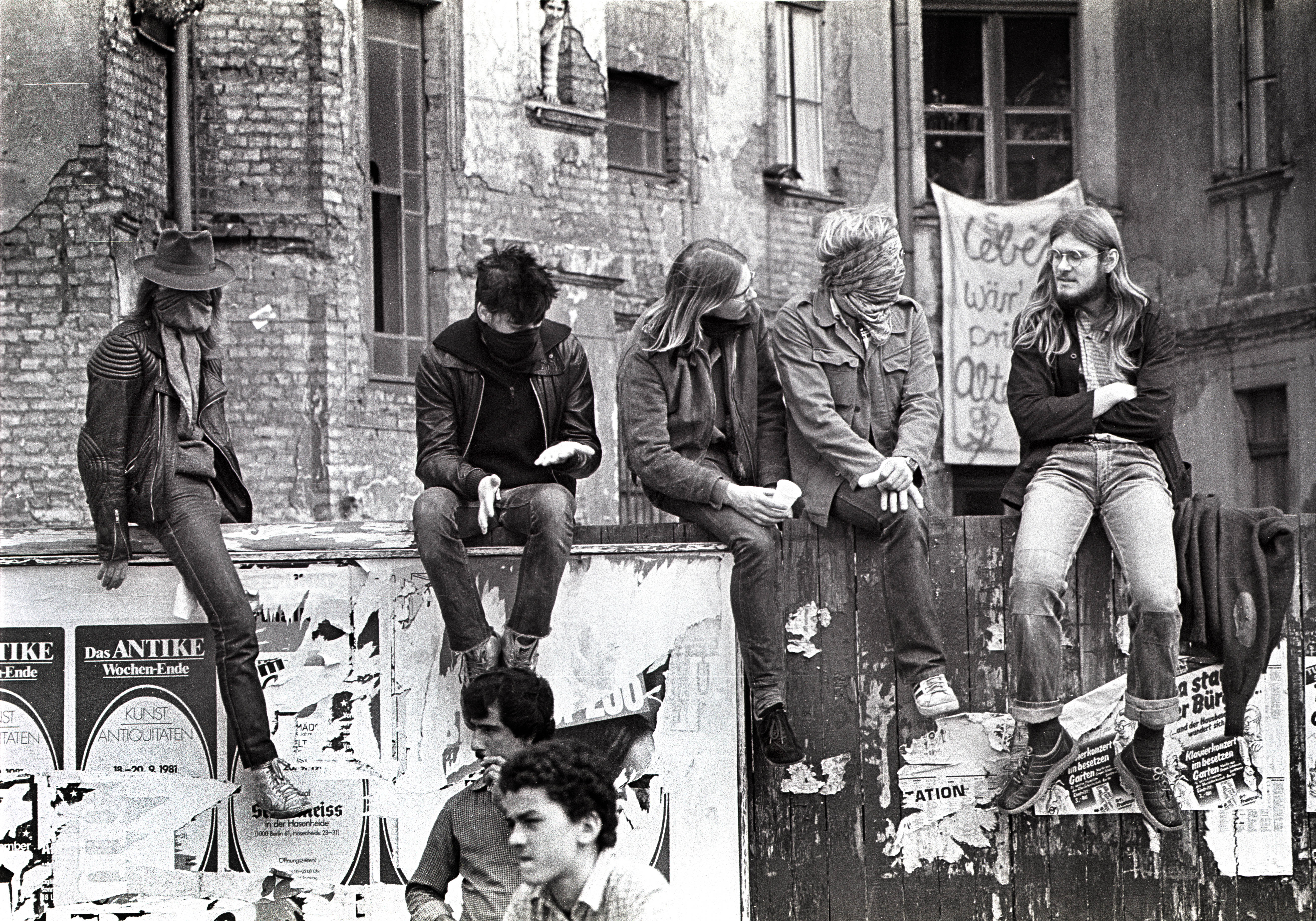 Squatters in Berlin, Kreuzberg (1981)